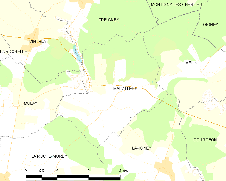 Map of French municipality